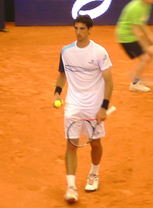 Thomaz Bellucci during the match versus Philipp Kohlschreiber at the German Open 2010 in Hamburg